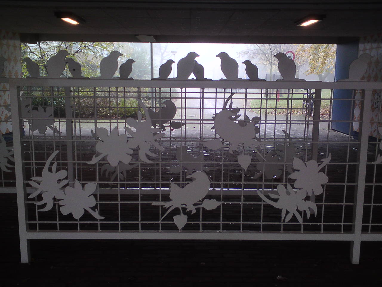 Artist: Berkmans/Janssens; Year: 2009; Street: Olifantswerf; Material: painted steal.